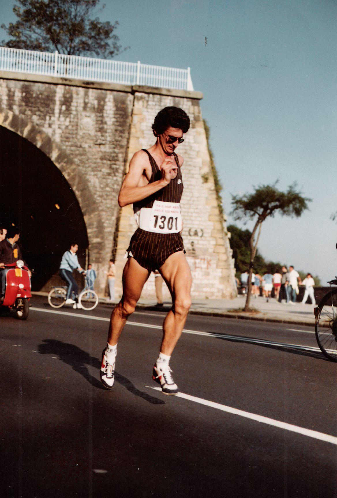 Image of Honorato Hernández when was heading the marathon of San Sebastián of 1985.